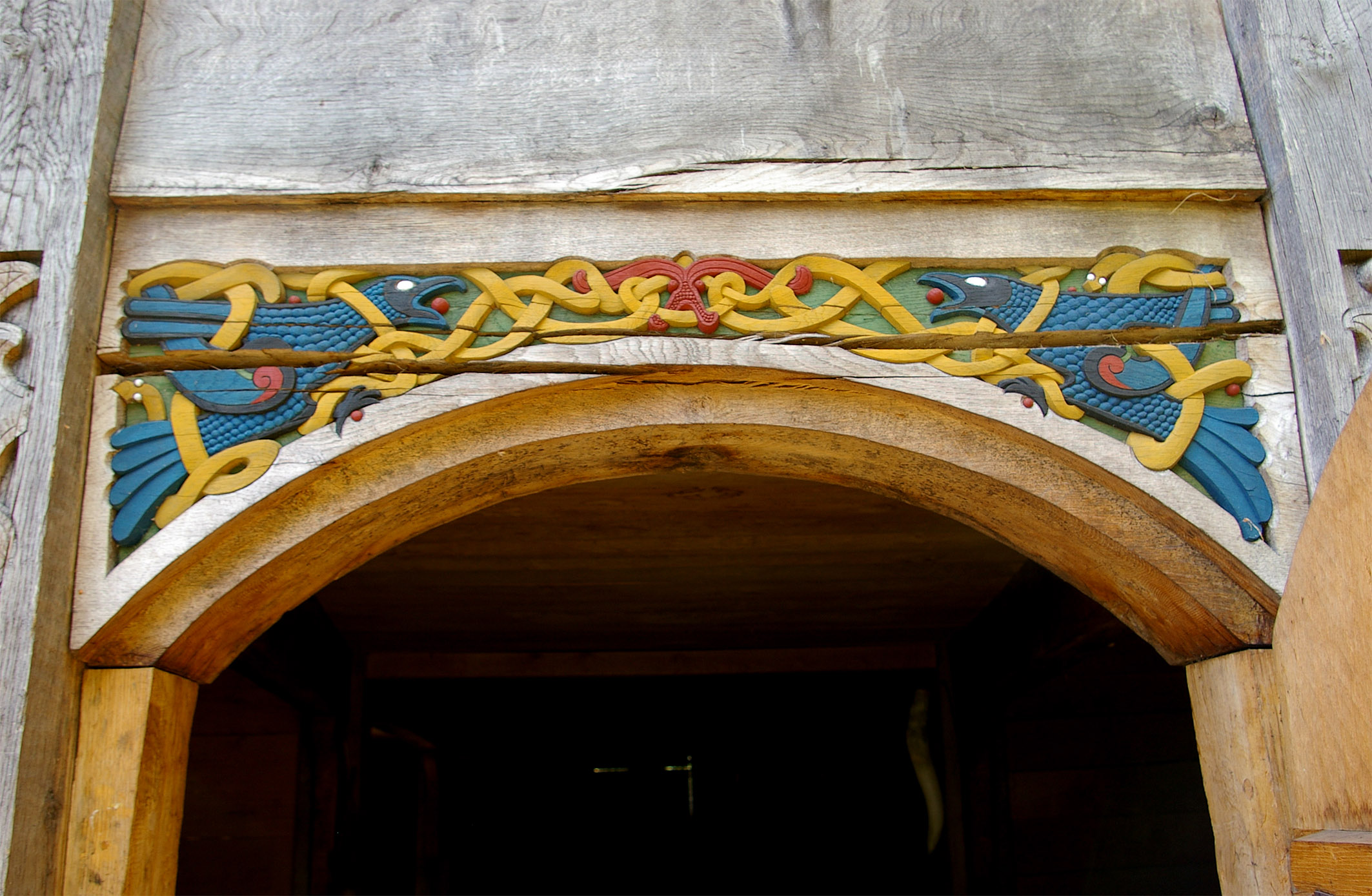 Reconstructed Viking farm at Ale near Göteborg, Sweden.